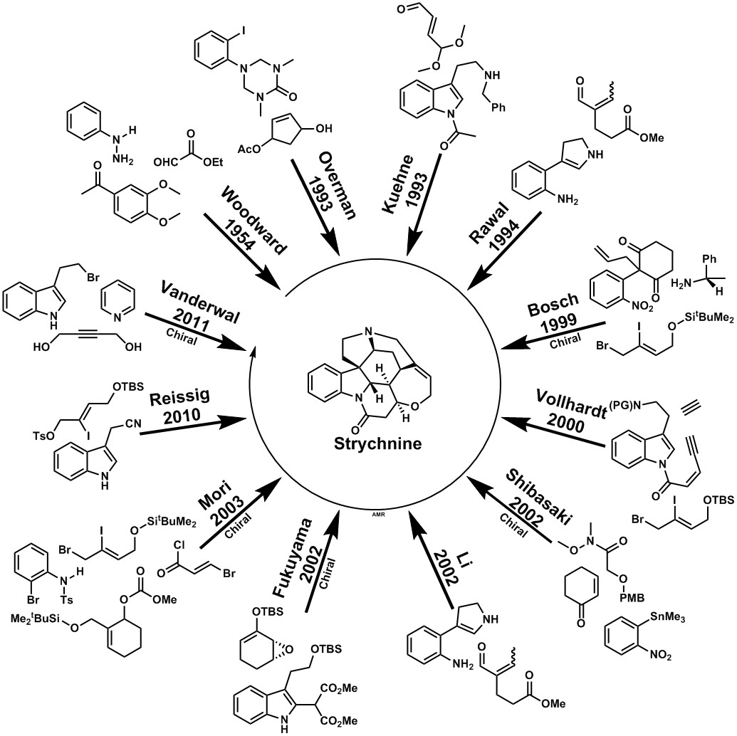 Strychnine Star Synthesis Routes